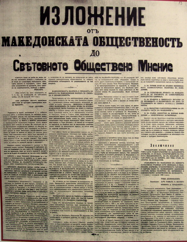 Statement from the Macedonian Public to the World Public Opinion, demanding creation of a separate Macedonian state with equal rights for all Macedonians regardless their faith and ethnicity.